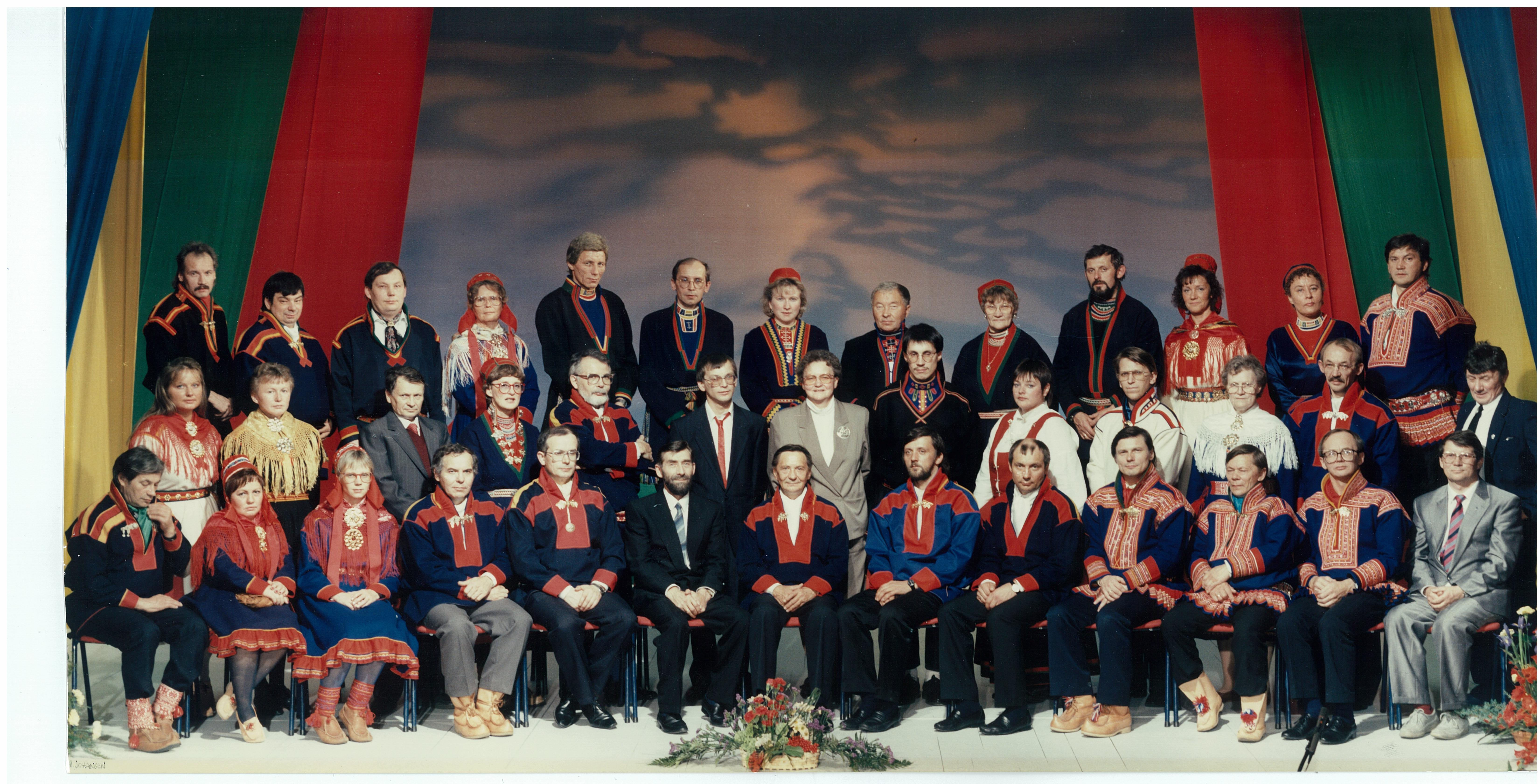 Sami Parliament of Norway 1989